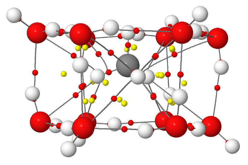 Methane interacting with water molecules.